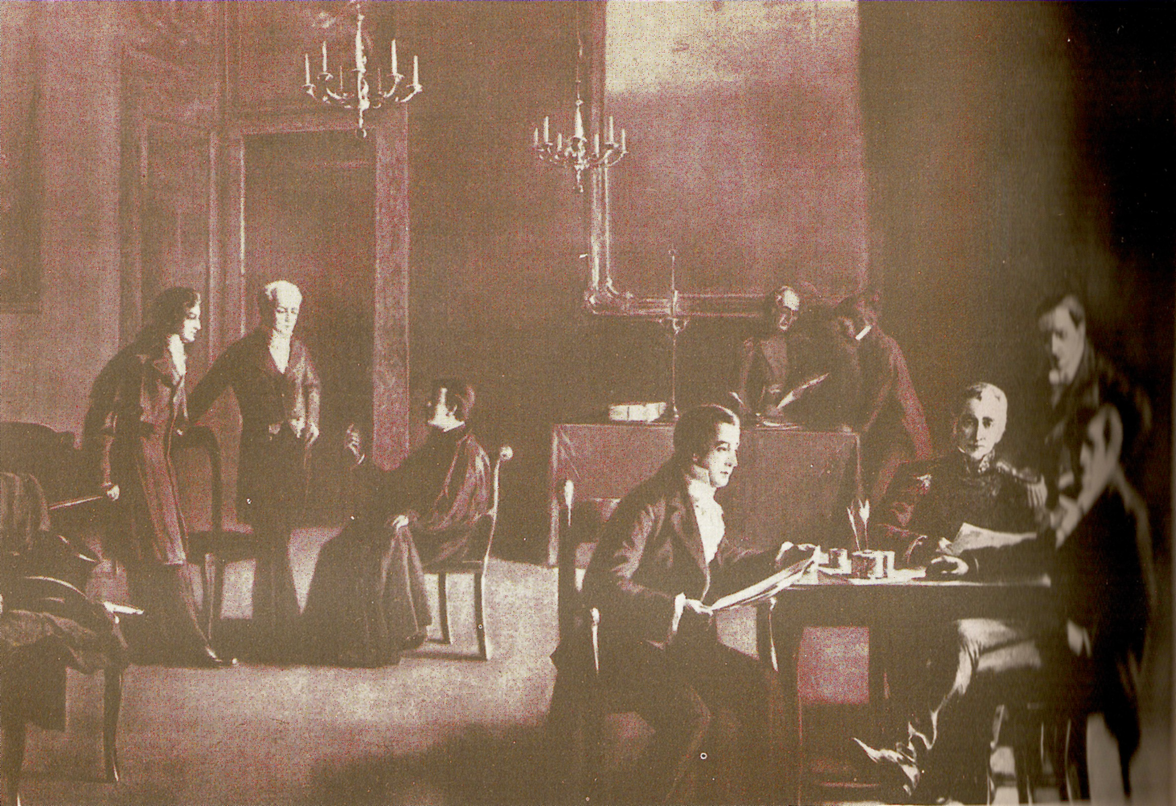 The First Assembly, first patriotic goverment of Argentina after the May Revolution